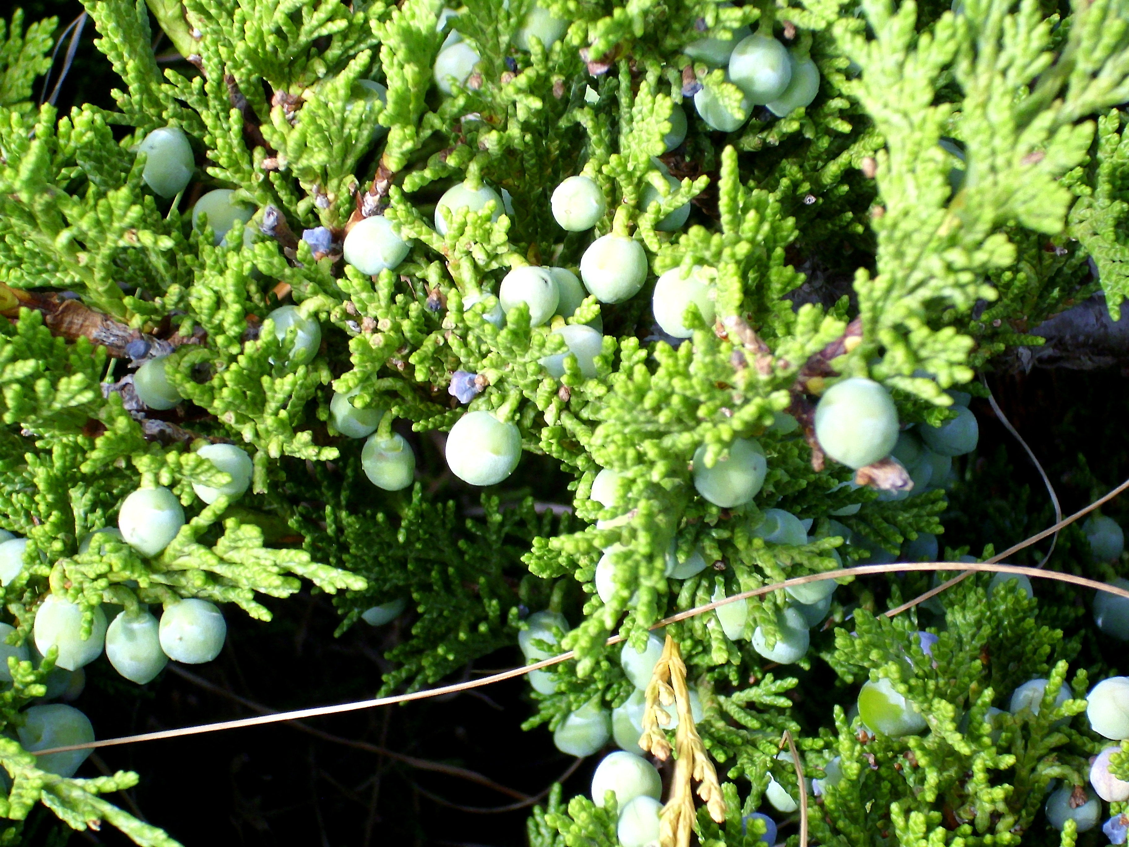 Juniperus sabina creeping variety, fruits and leaves close up, Sierra Nevada, Spain